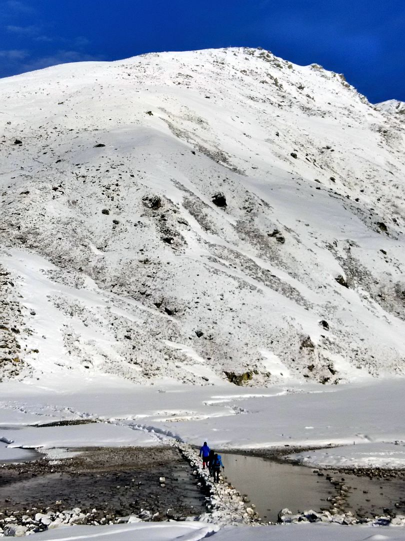 Frozen Gokyo Third Lake and Gokyo Ri